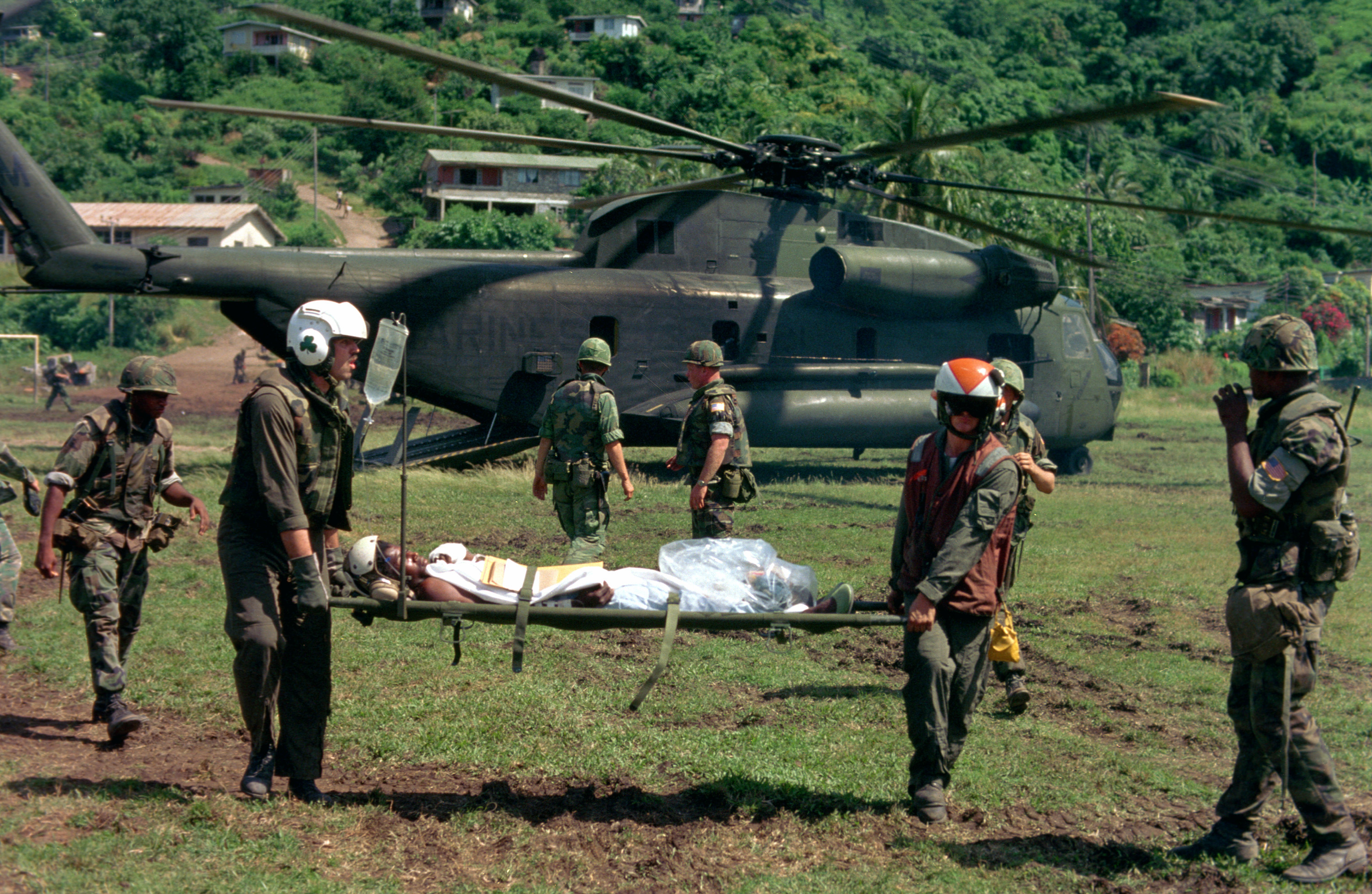 A U.S. Marine Corps Sikorsky CH-53D Sea Stallion helicopter transporting wounded during "Operation Urgent Fury", the U.S. invasion of Grenada in October 1983. The Sea Stallion was from Marine medium helicopter squadron HMM-261 Raging Bulls, which was deployed aboard the helicopter carrier USS Guam (LPH-9).